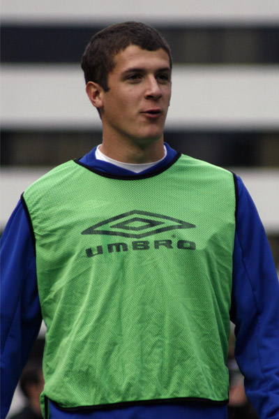 photo of soccer player, Mason Trafford